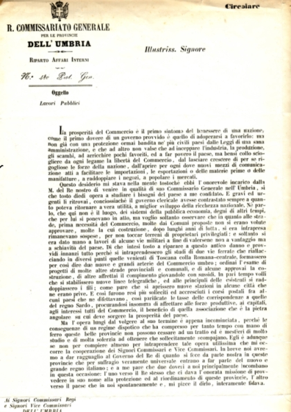 Italian Document of 1860